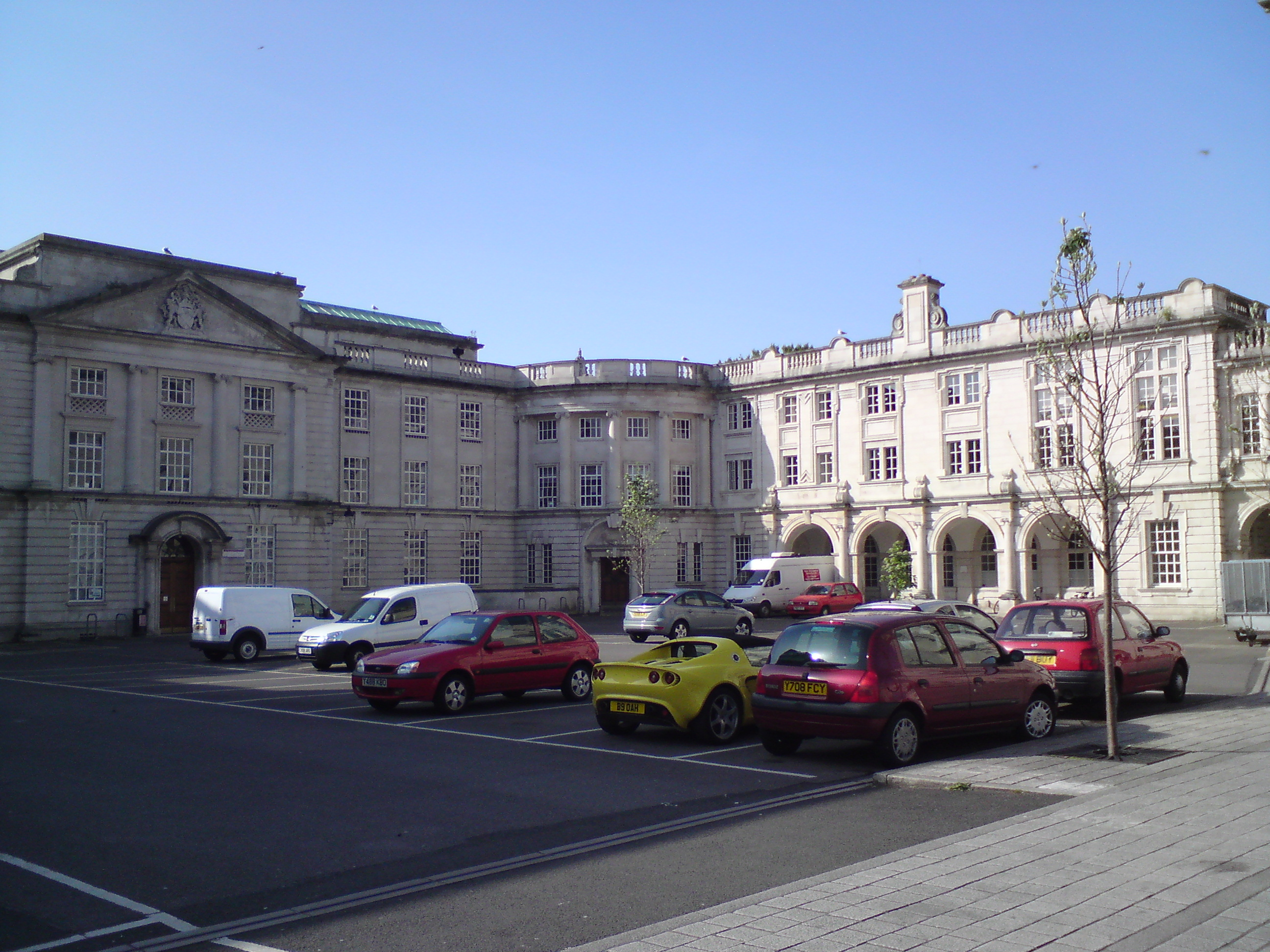 Cardiff University School of Biosciences (BIOSI 1)